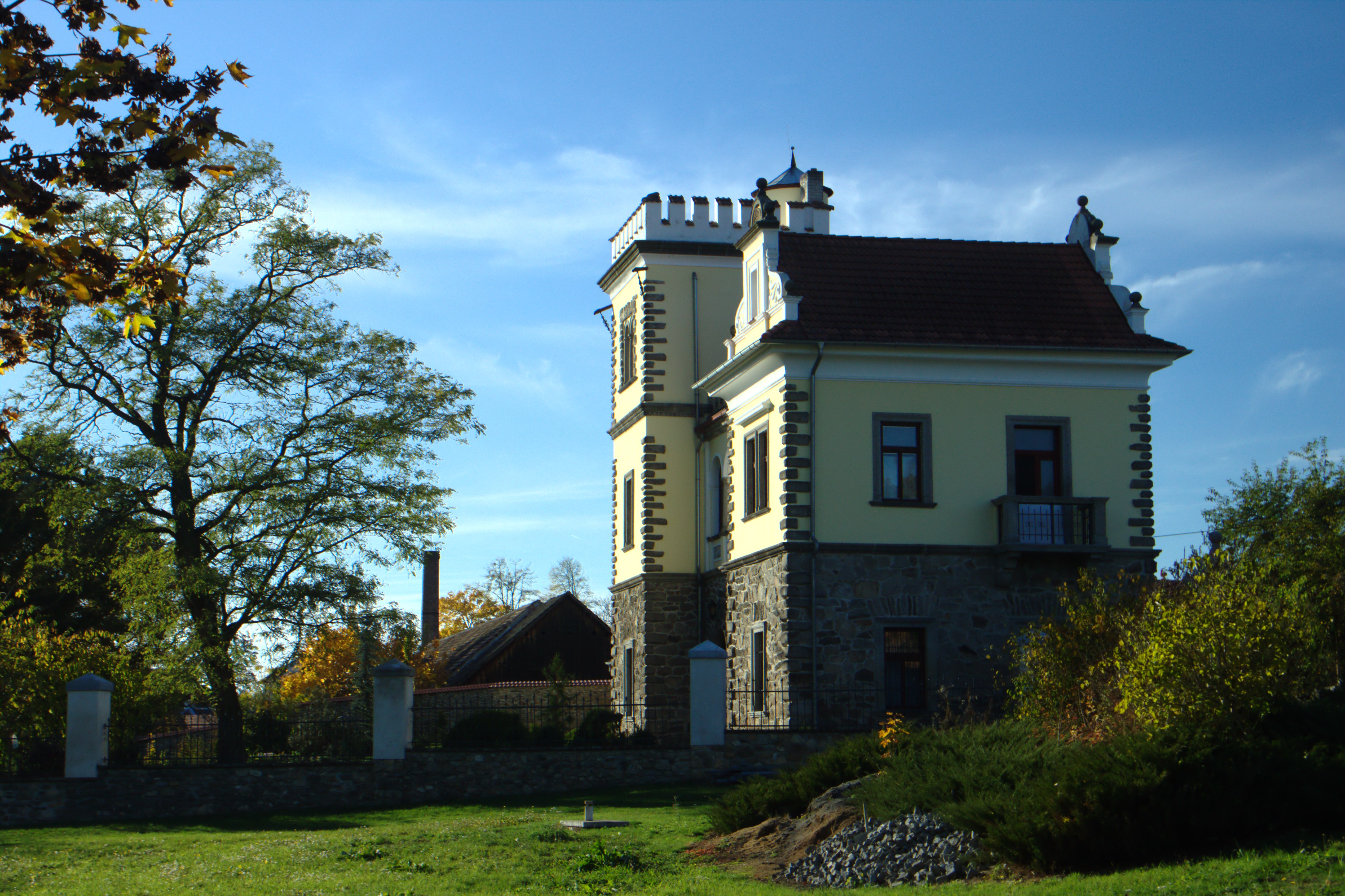 Mansion building in Bolechovice, Central Bohemia, CZ